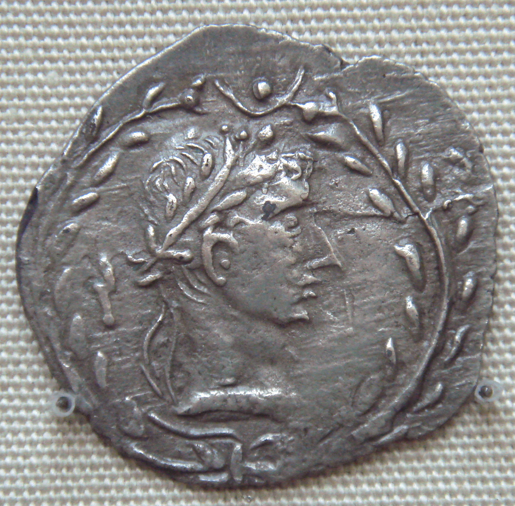 Himyarite Kingdom (South Arabia) Augustus Imitation coin, 1st Century CE